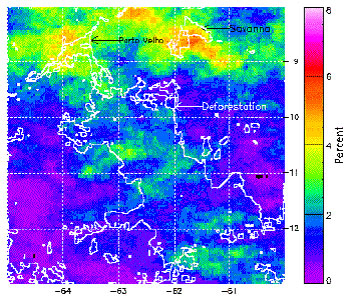 Effects of deforestation in Brazil on cloud cover taken from a NASA study